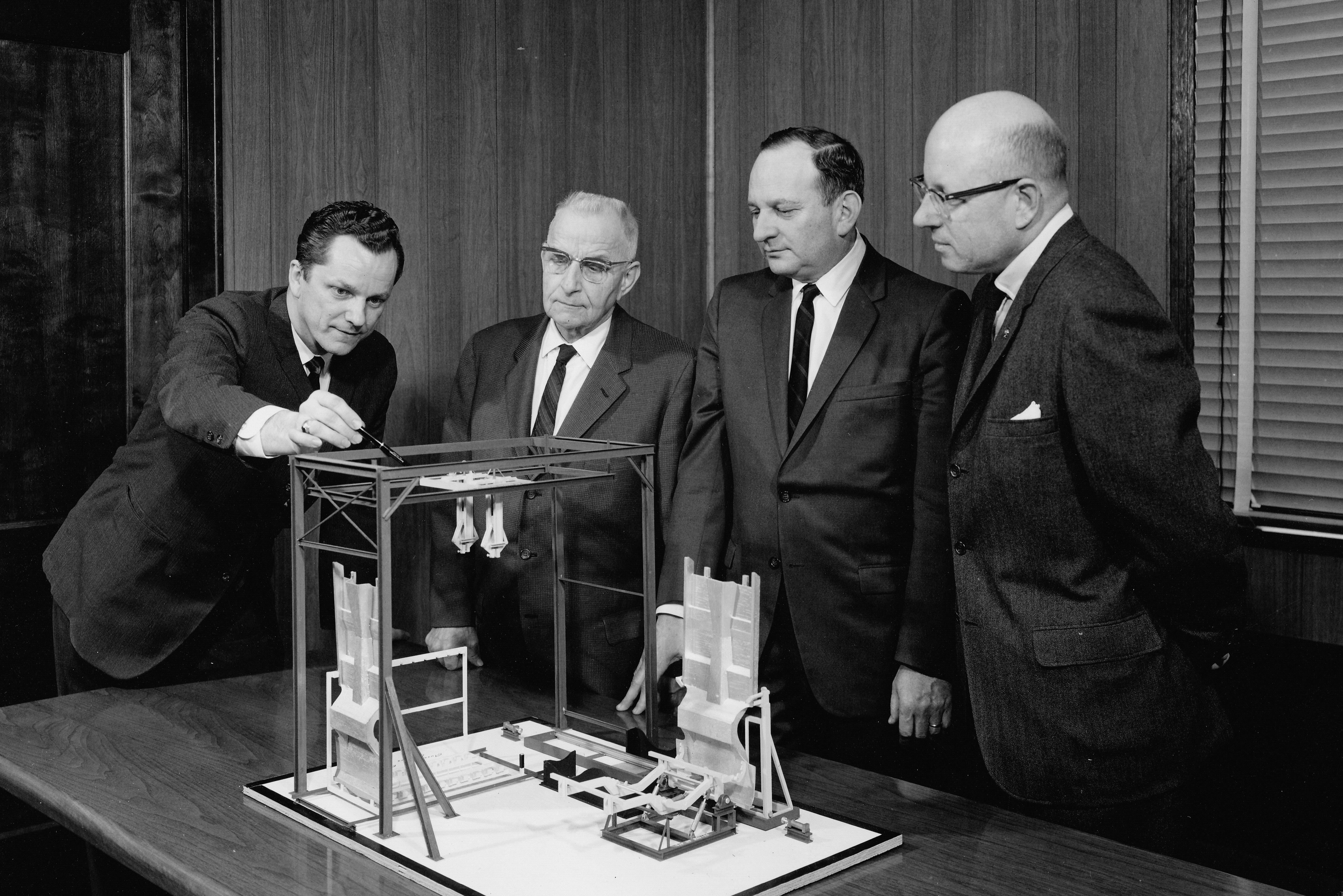 Harry G. Garland with his management team at Anchor Steel and Conveyor Company in 1965: Ade Czarnecki (Chief Engineer), Harry Garland (President), Marshall Brenner (Vice President and General Manager), Ted Hegelman (Sales Manager). Anchor Steel and Conveyor Company designed and installed the transportation system that carried 26,000,000 people through the General Motors Futurama exhibit at the 1964 World’s Fair in New York.